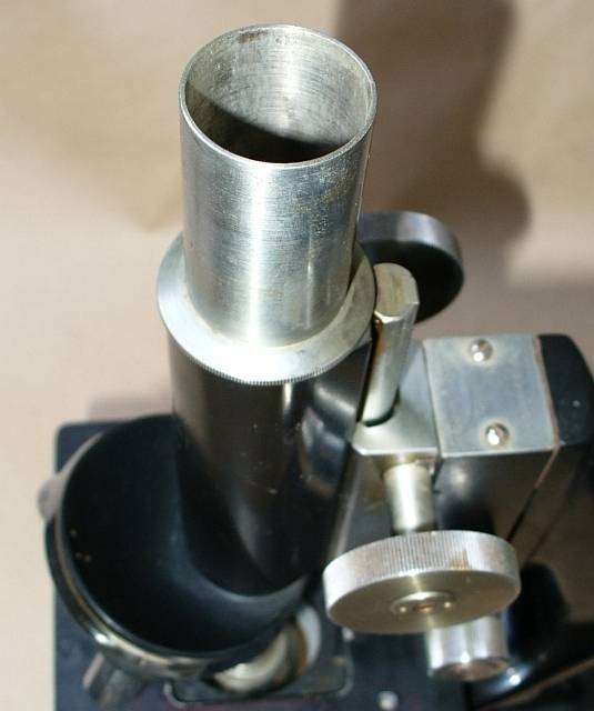 Microscope.